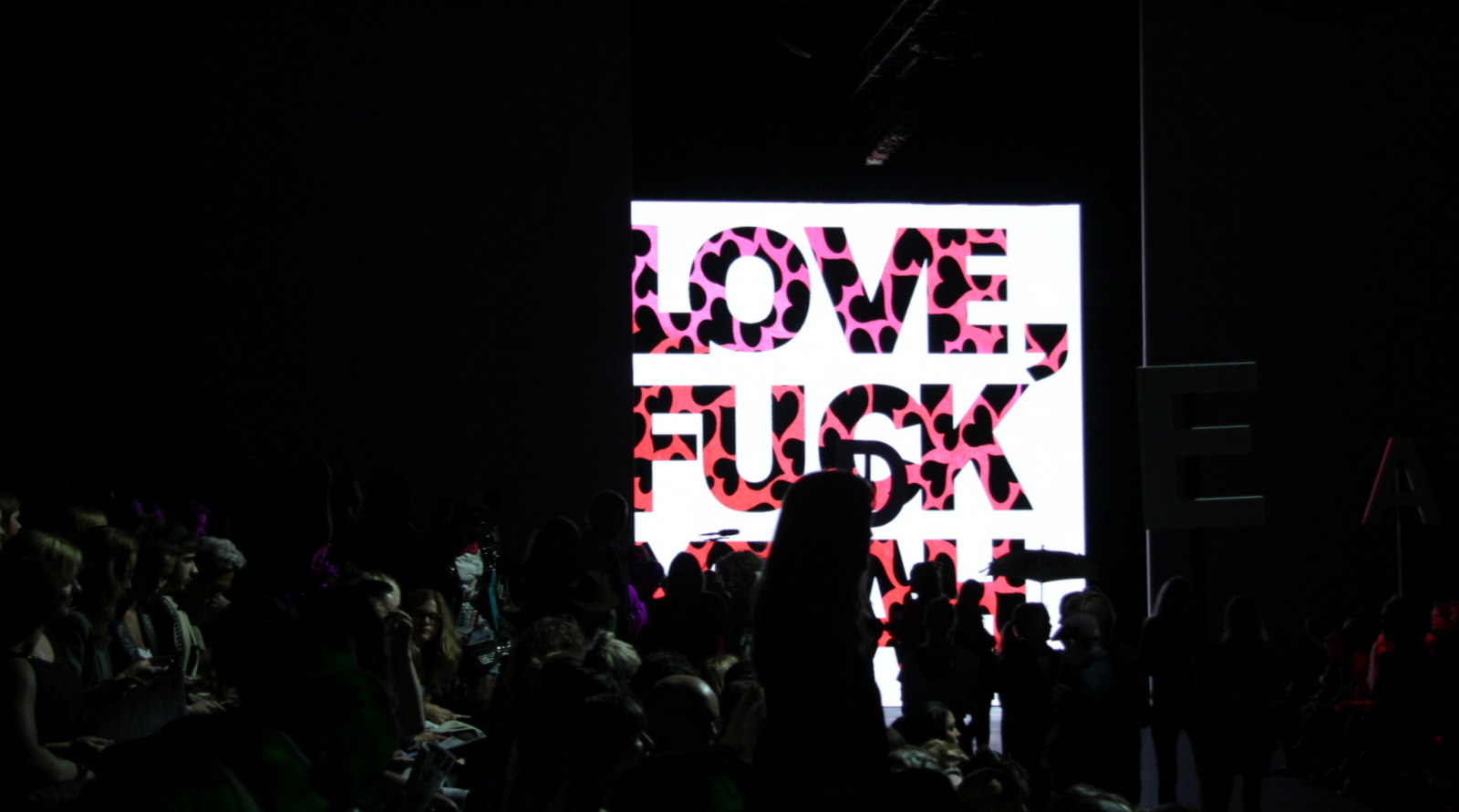 Show of Bas Kosters, FUCK LOVE YEAH - AN ARTISTS' MIND